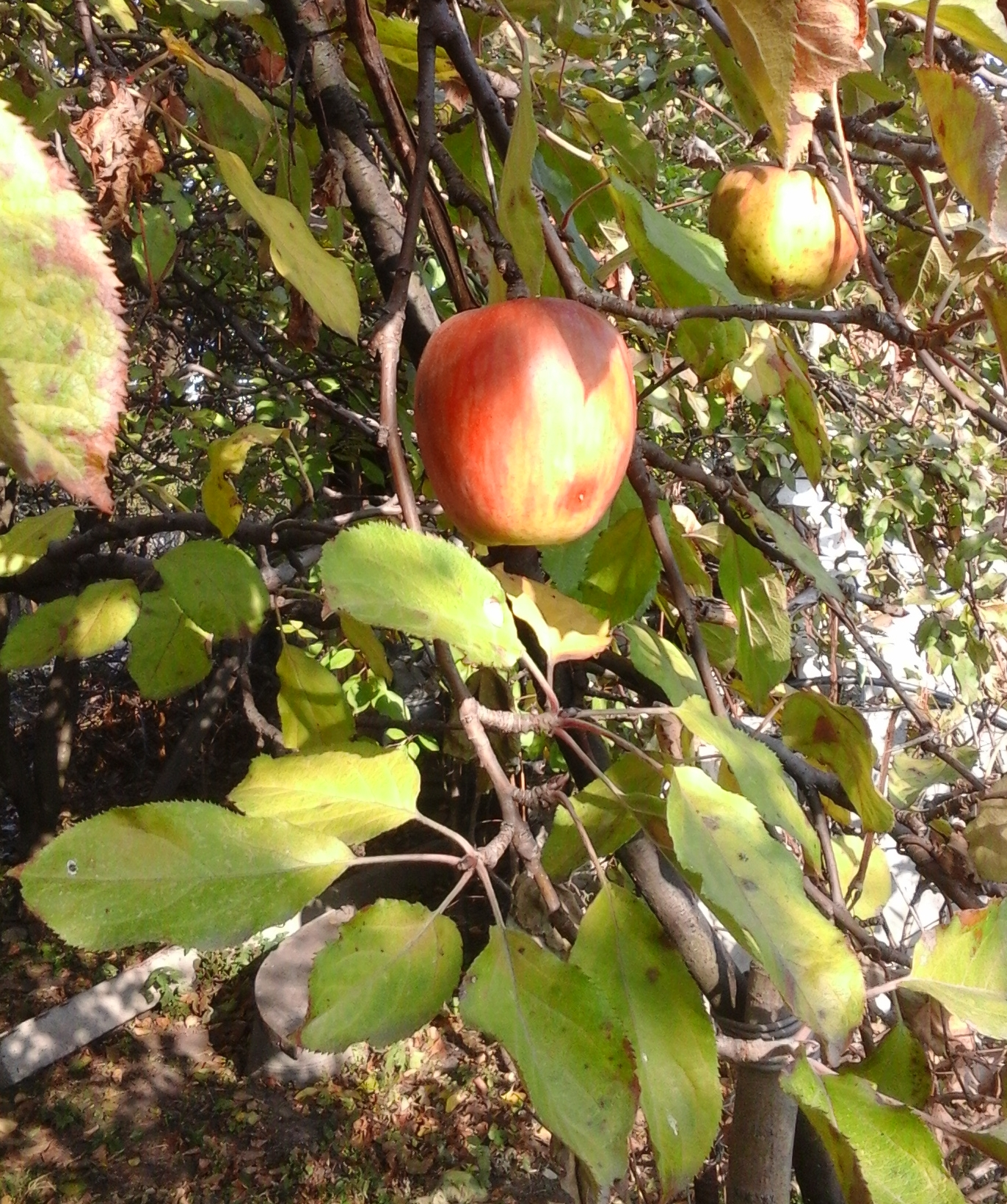 Kandil sinap. Lyutіzh-Sady, Kyivs'ka oblast. 2015 Year.